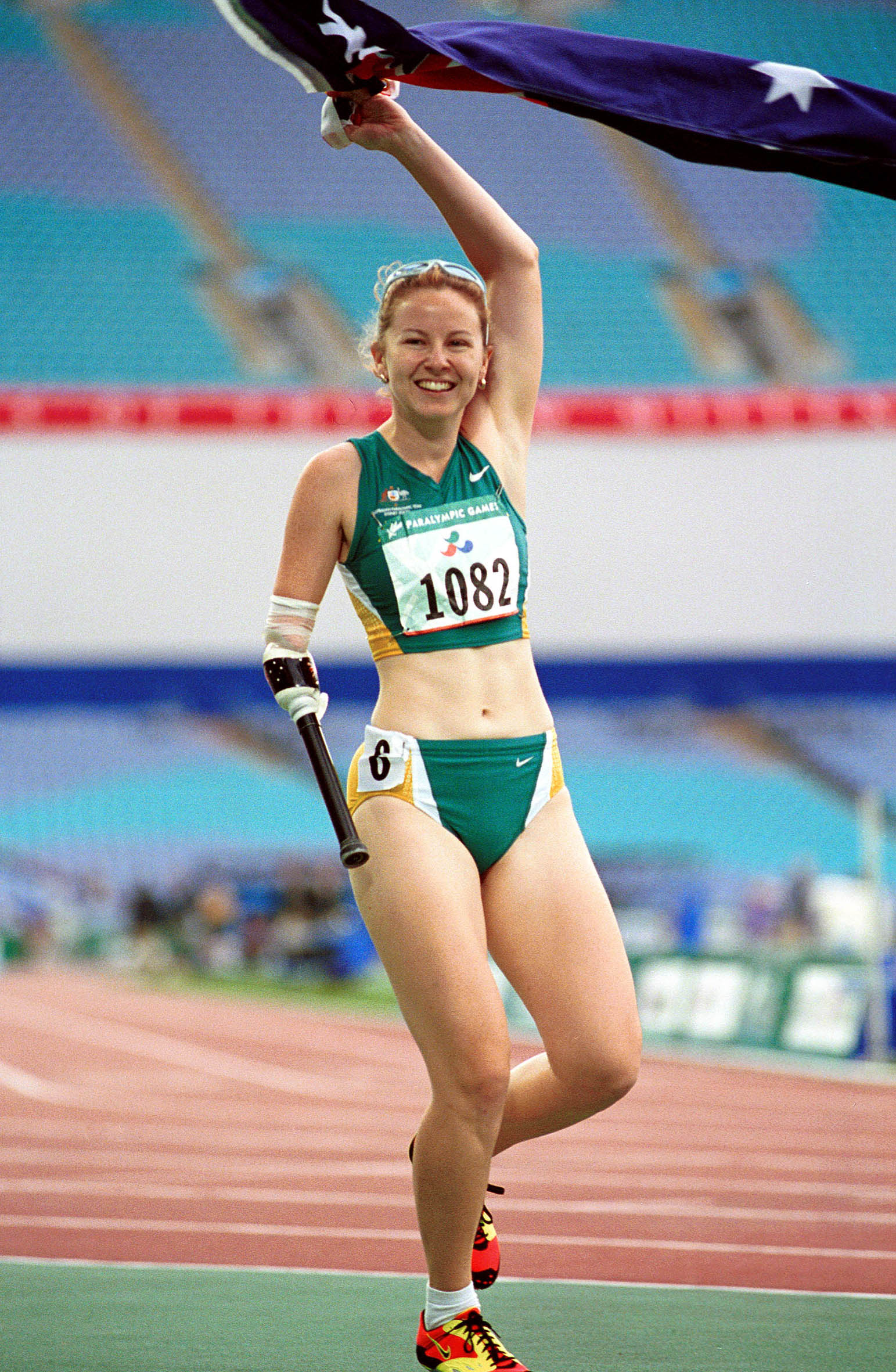 Australian track athlete Amy Winters celebrates her gold medal win at the 2000 Sydney Paralympic Games, Day 08. This was either the 100 m T46 or 200 m T46 event (Winters won gold in both).